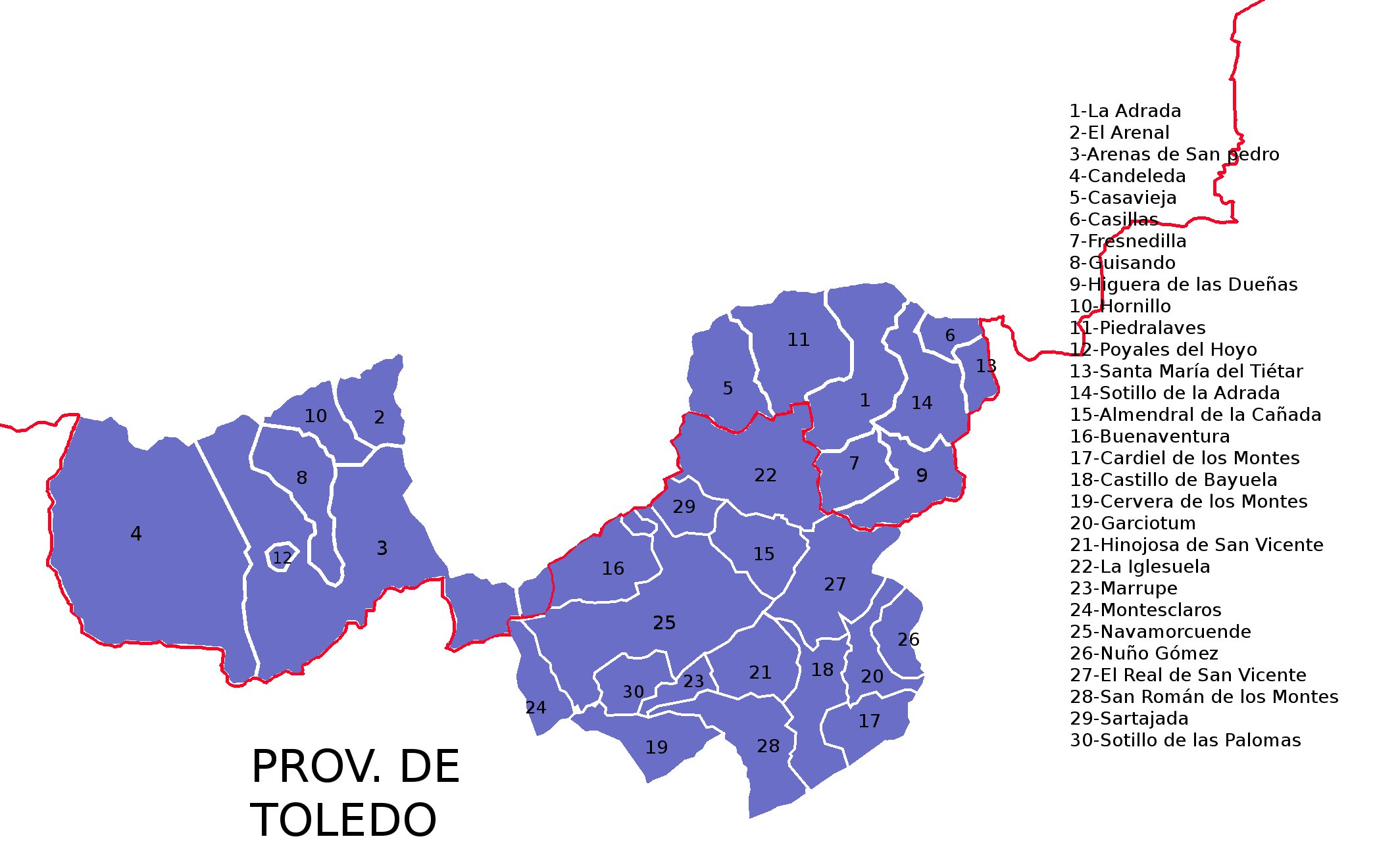 Municipios del Arciprestazgo de Arenas de San Pedro